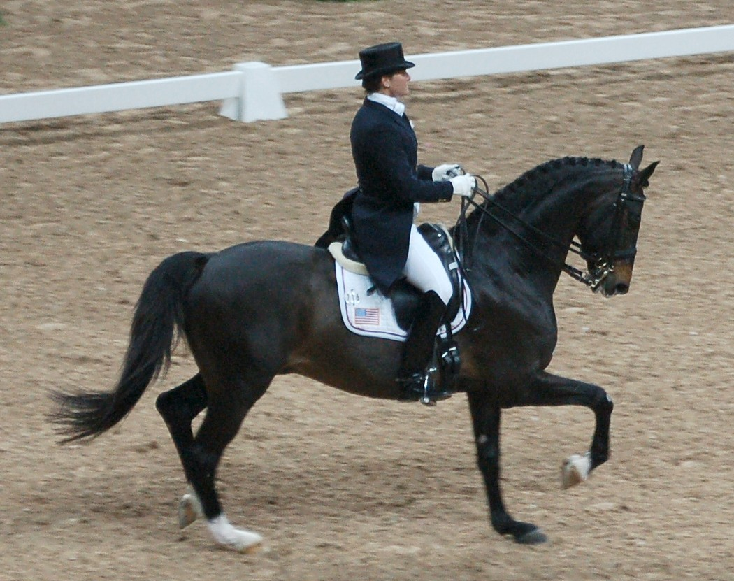 Leslie Morse, dressage rider from the United States, with the Swedish Warmblood stallion "Tip Top", World Cup Final 2007